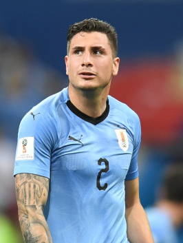 José Giménez with Uruguay against Portugal in the 2018 FIFA World Cup